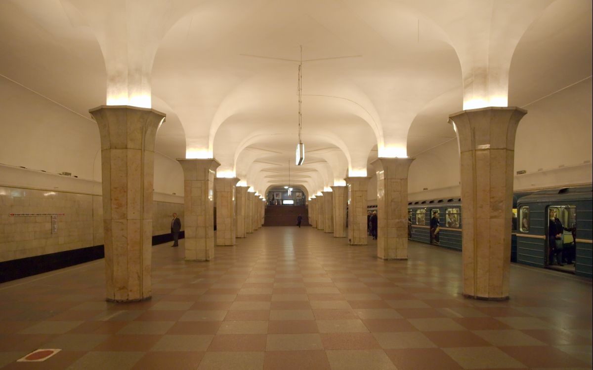 Kropotkinskaya. Bibble lite raw conversion.